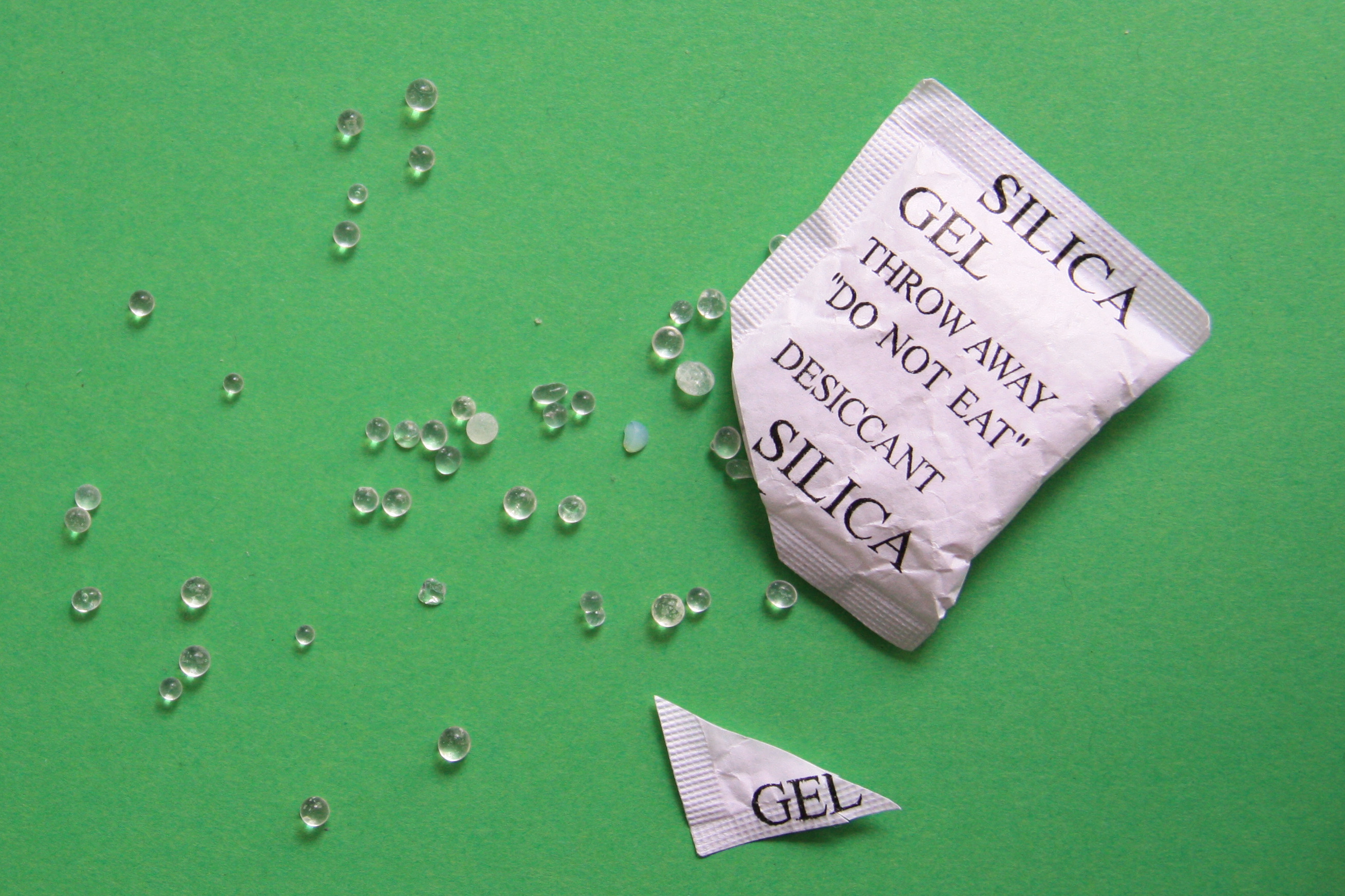 Silica gel